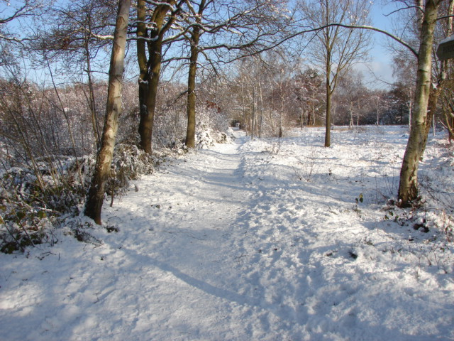 Footpath, Bisley Common Snow scene on the northern part of Bisley Common alongside Shaftesbury Road. The Southern part runs from the A322 to Stafford Lake, about half a mile to the south.